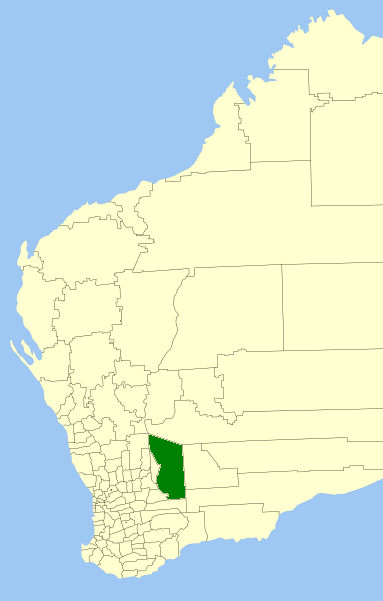 Location of the Local Government Area in Western Australia